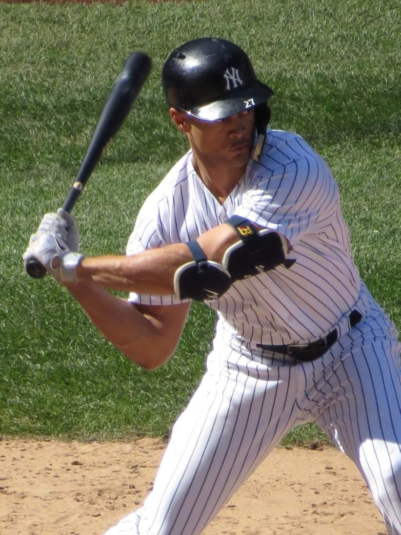 Giancarlo Stanton batting.